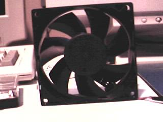 It's a computer fan. 80x25mm, Protechnic make. Uploaded for use in Fan (implement). I took it with my webcam.